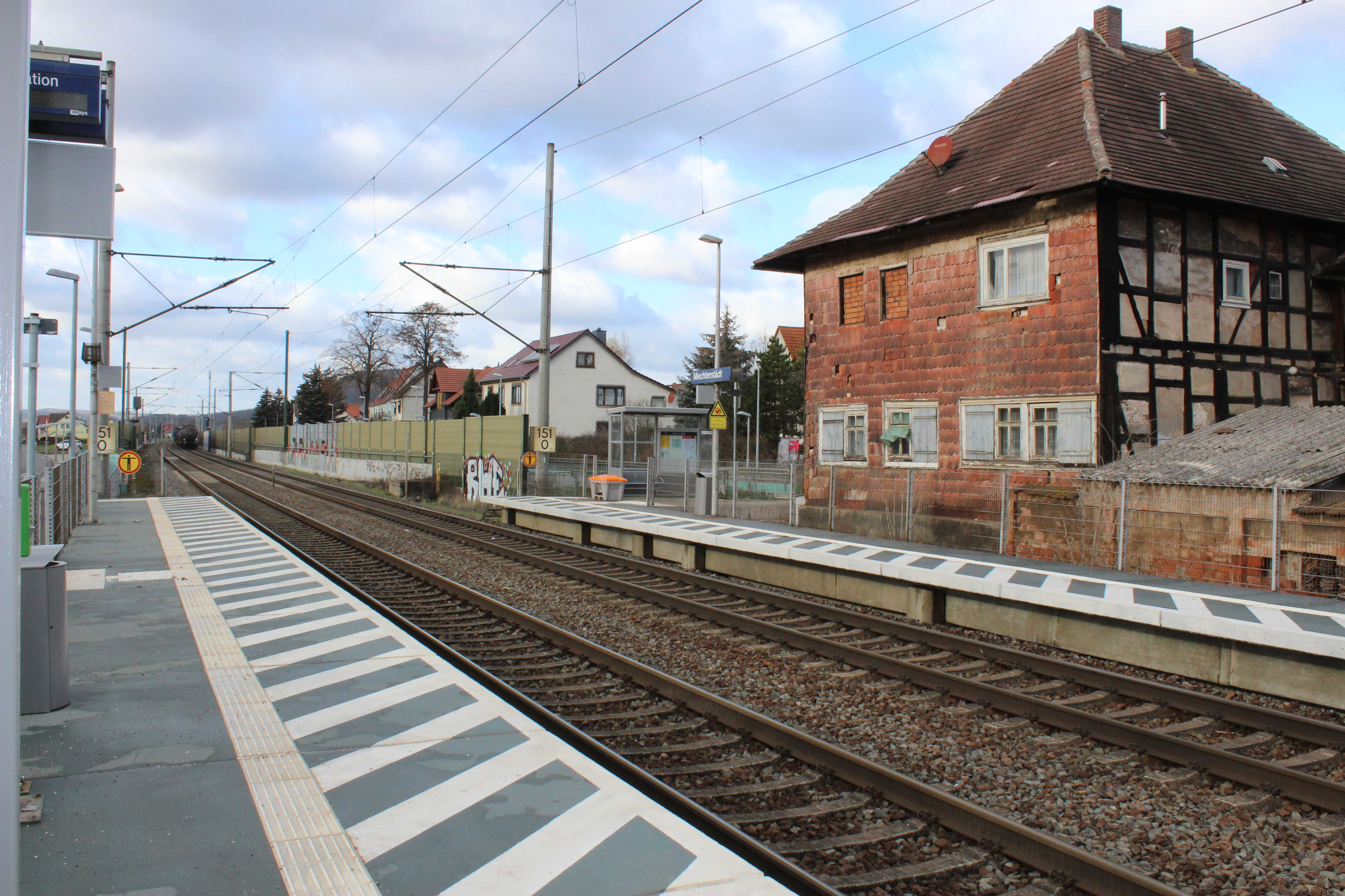 train station Mechterstädt